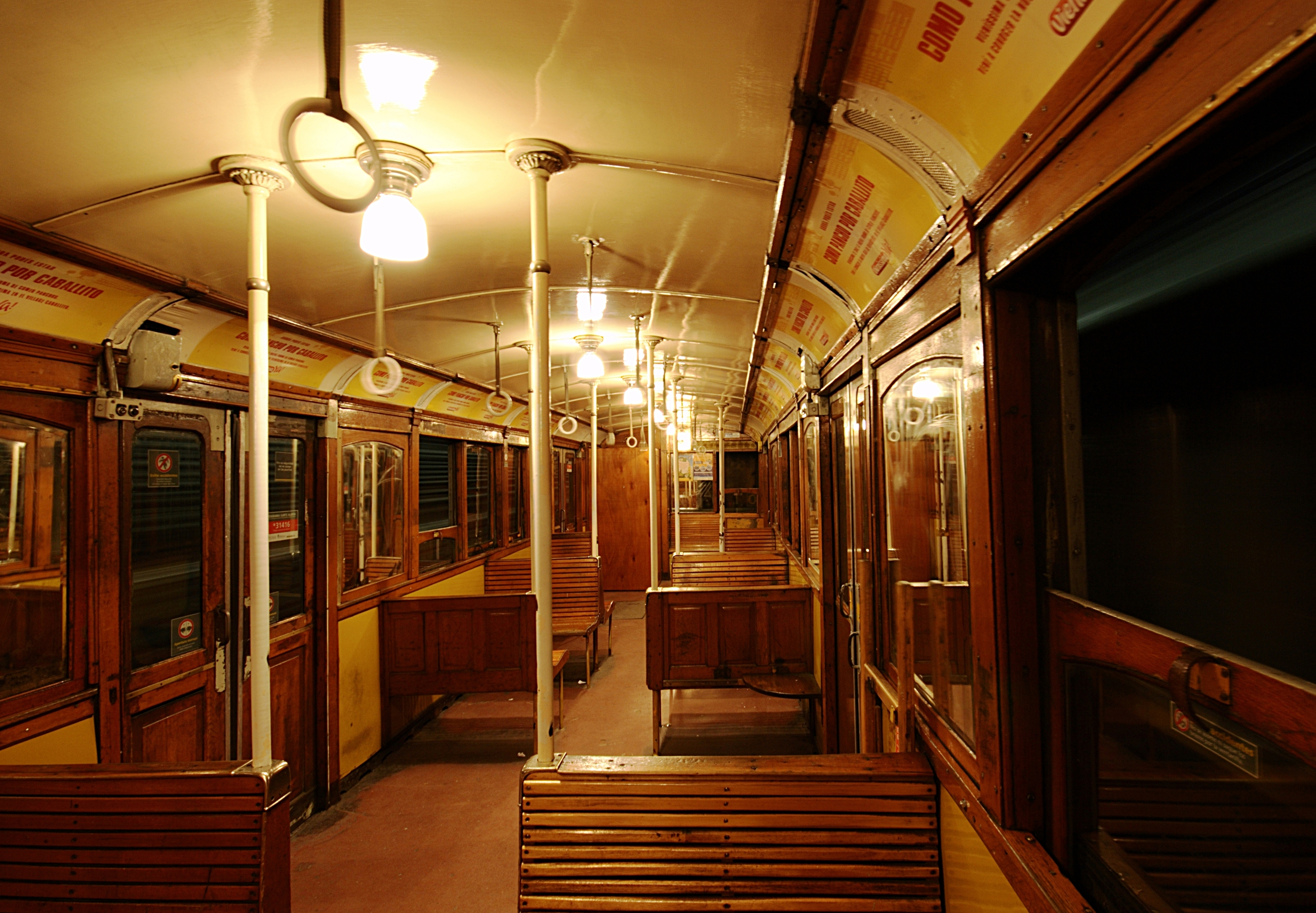 These cars are the oldest metro rolling stock in commercial service in the world as well as a tourist attraction and part of Buenos Aires cultural heritage. They are known colloquially as the Belgian or the witches, in reference to their country and city of origin respectively.